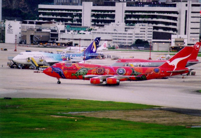 Qantas Wunala Dreaming Visited Kai Tak Airport in 1998